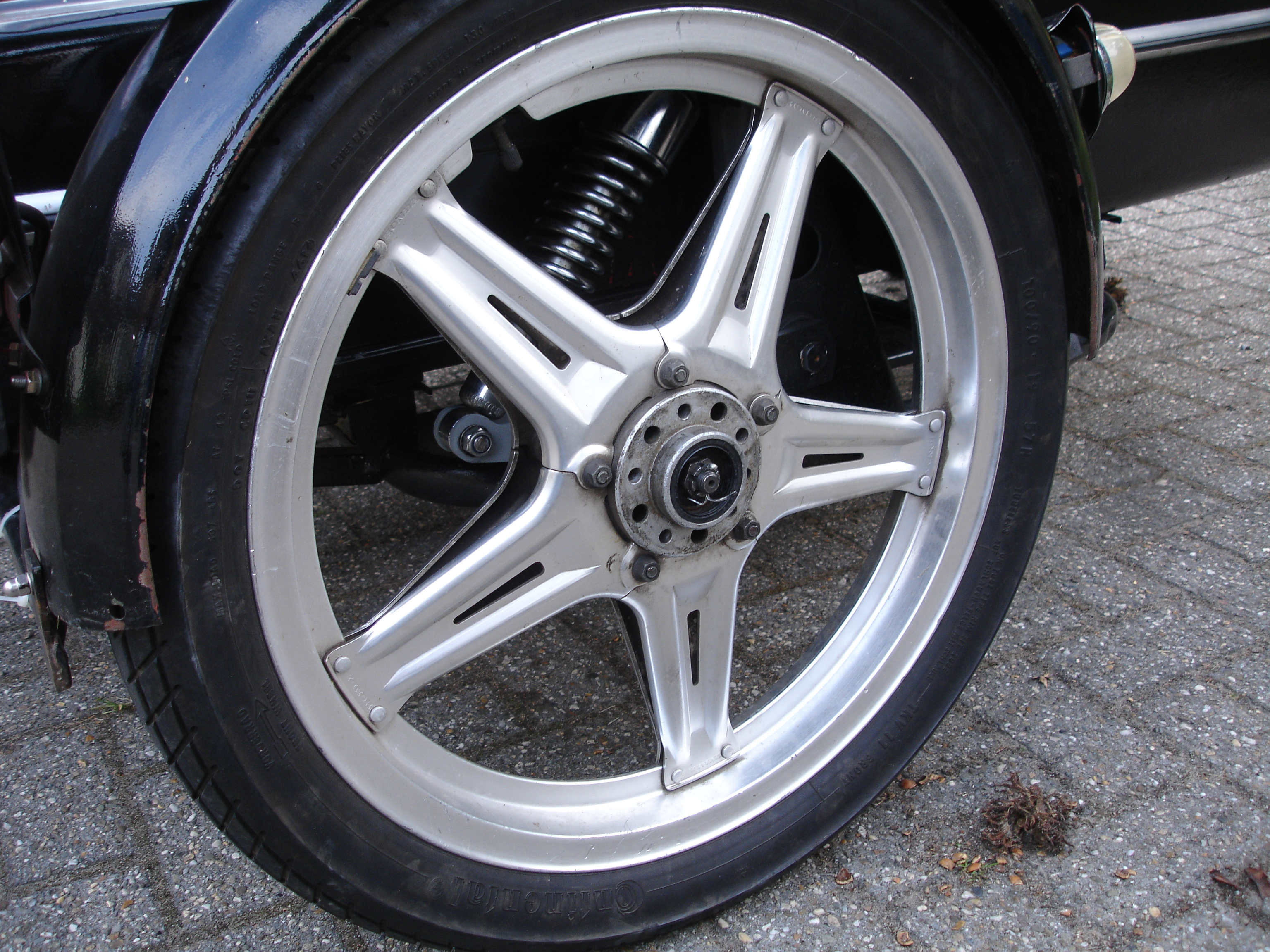 Honda Comstar rim